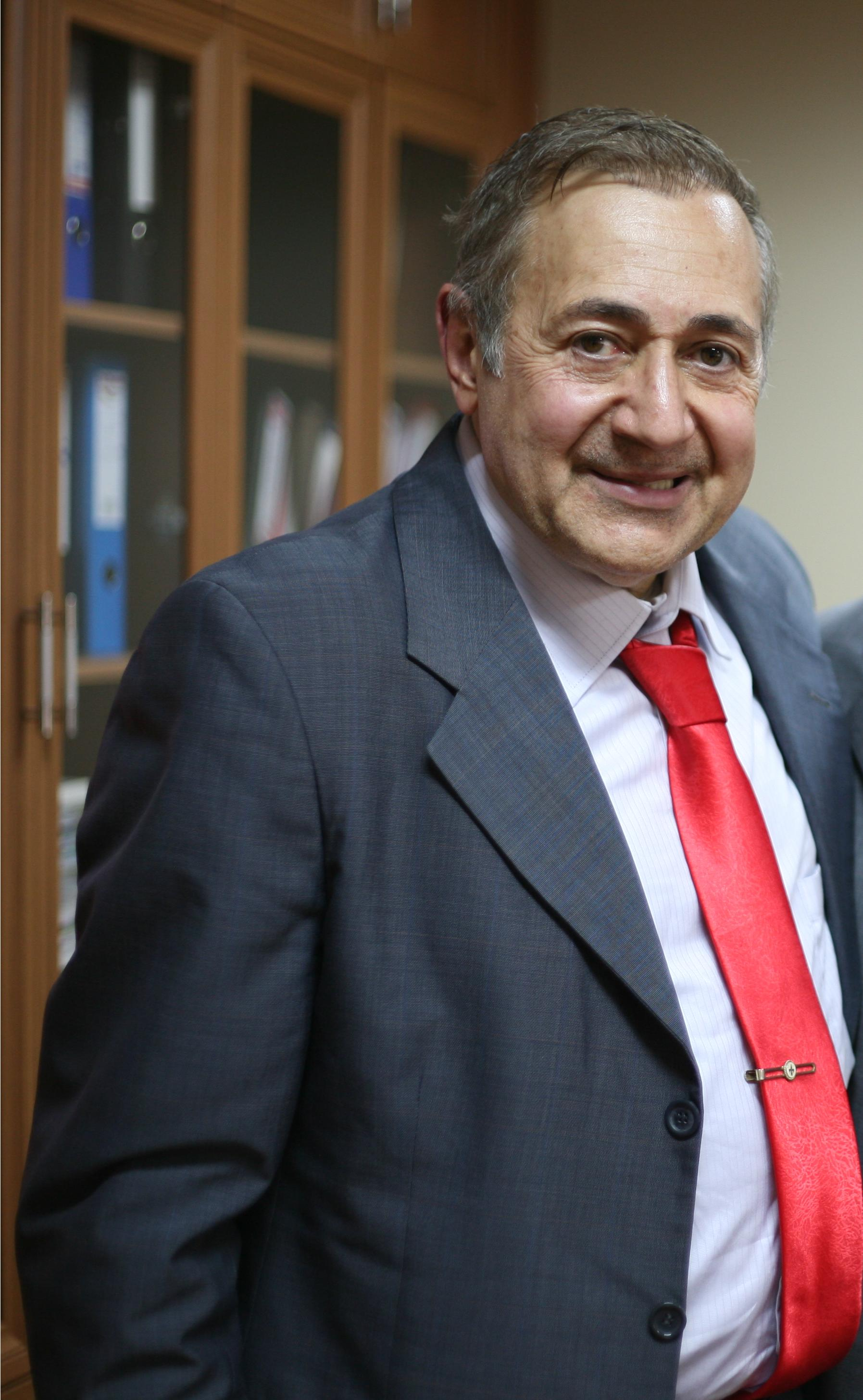 Turkish travel writer in a conference